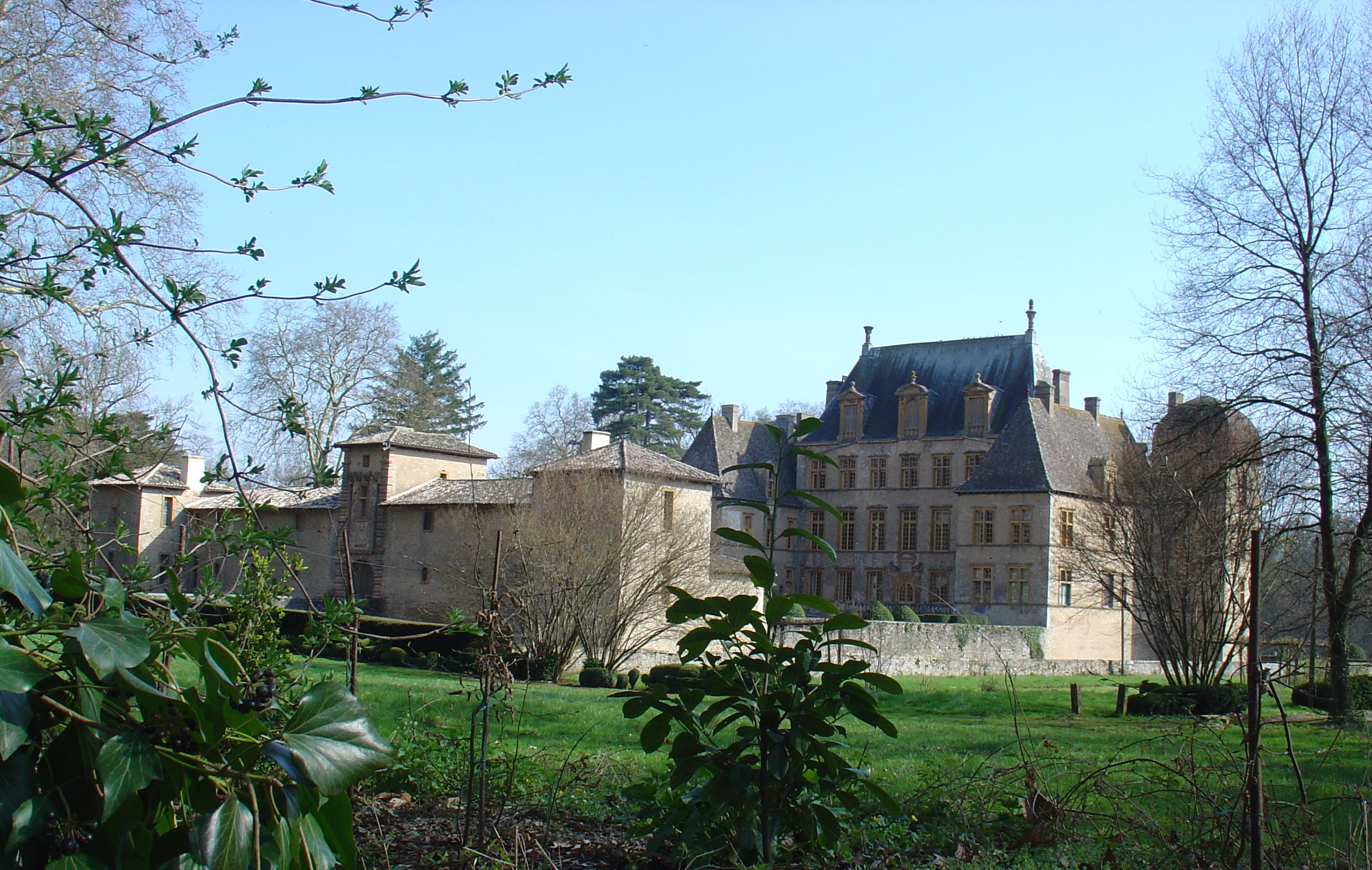 The castle of Fléchères.